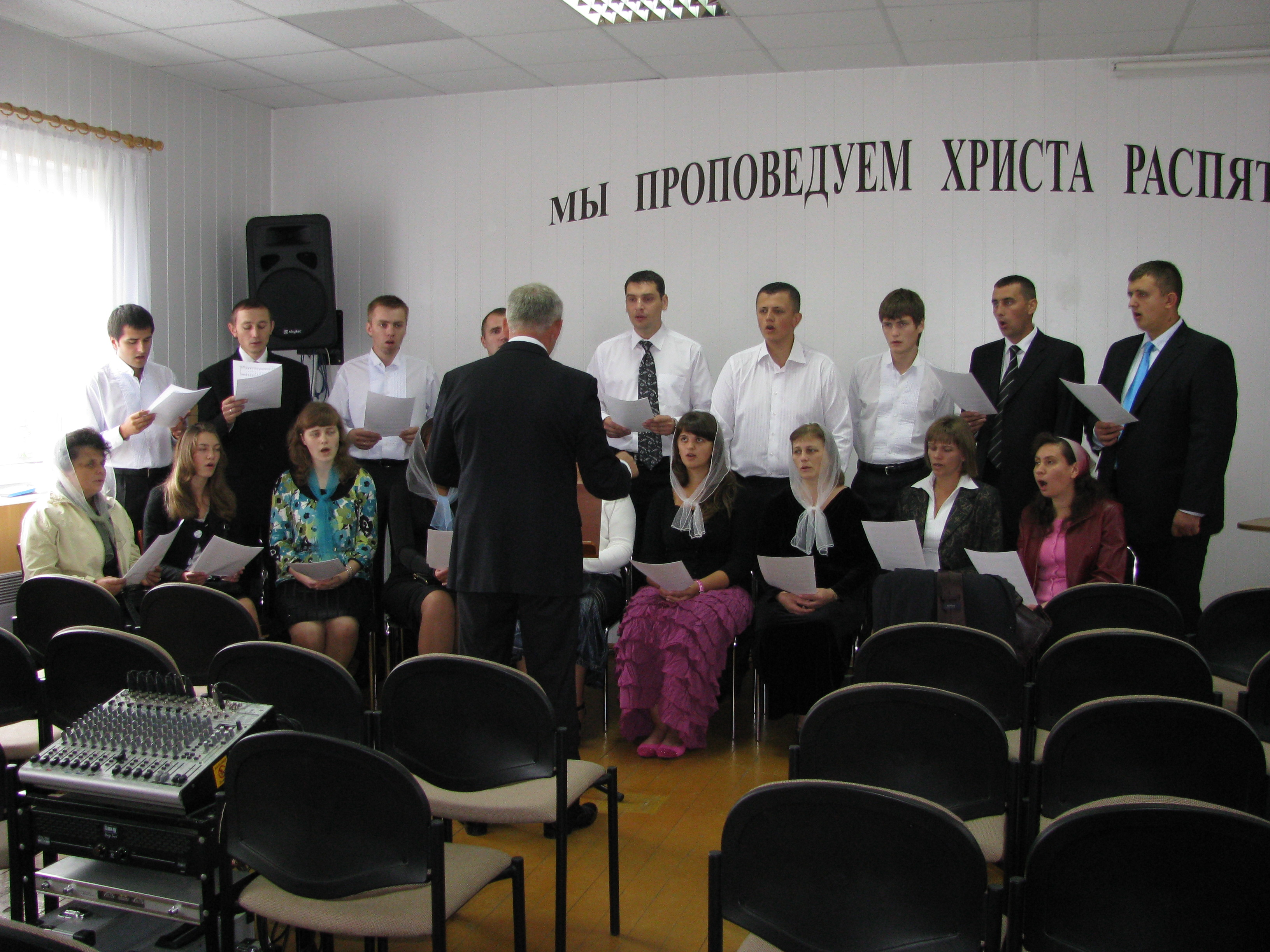 chór z Ukrainy